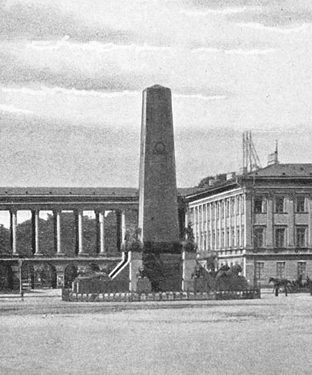 Monument of Seven Generals (polish loyalists during November uprising 1830) on Saxon Square in Warsaw, 1841-1894